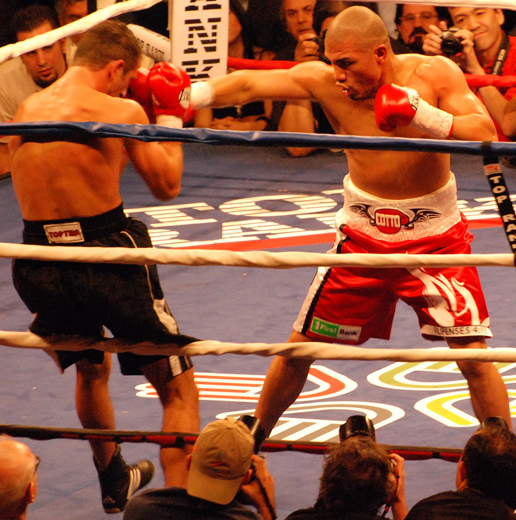 Photo of a fight between Miguel Cotto and Oktay Urkal.